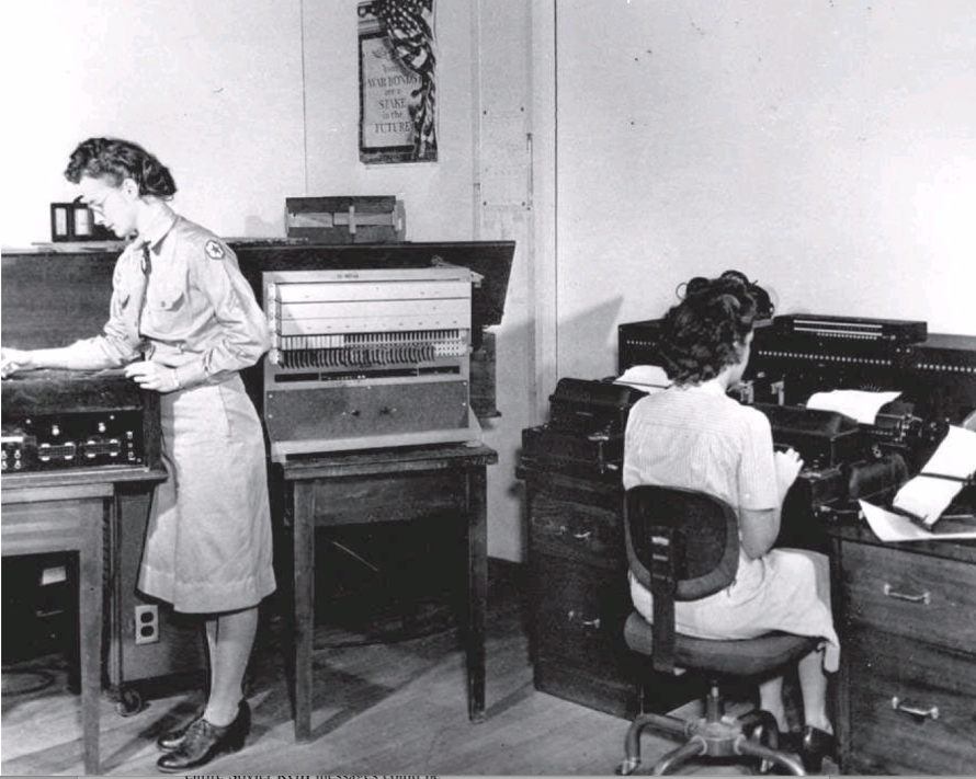 Two women at work at the U.S. Army Signal Intelligence Service during World War II. The woman on the right is inputting ciphertext into an analog of the Japanese Type B Cipher Machine. The machine, or one like it, is on display at the National Cryptologic Museum, where it is identified as an improved version that was introduced in March 1944. See other photos in the category "PURPLE analog, improved (National Cryptologic Museum)".